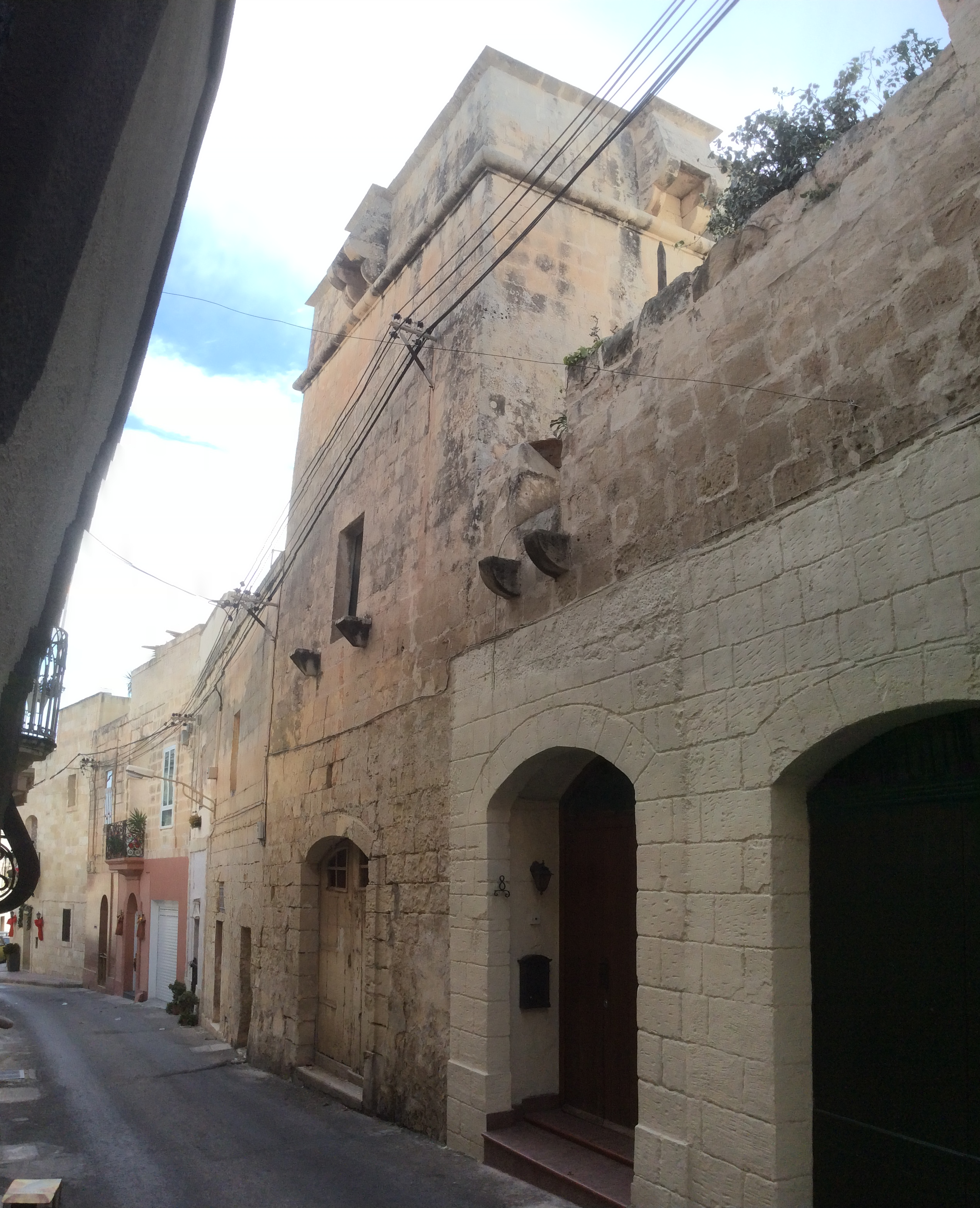 Birkirkara Tower